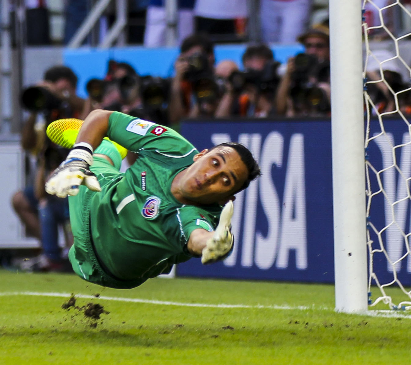 Uruguay and Costa Rica match at the FIFA World Cup 2014-06-14